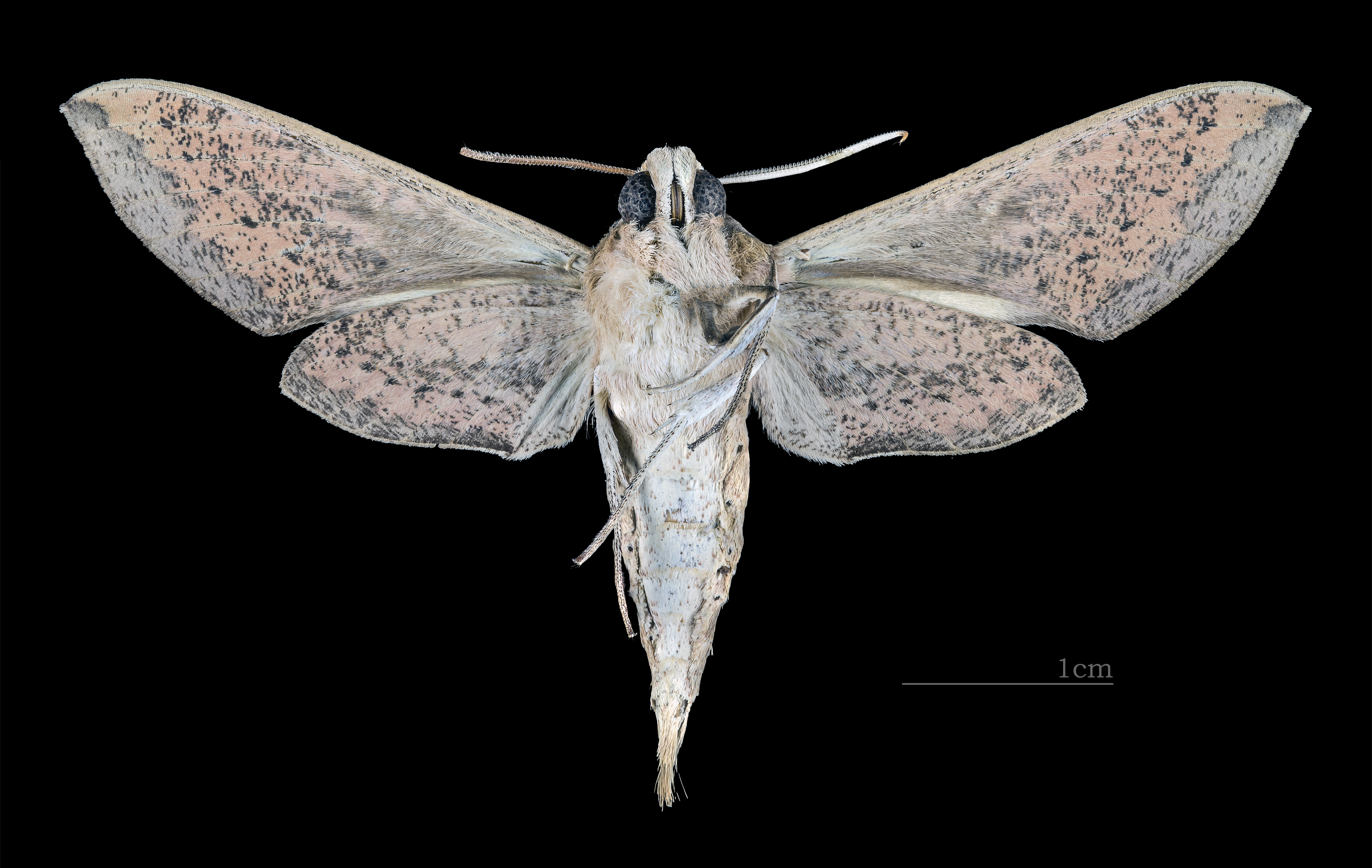 Xylophanes turbata - △ Ventral side Collection of the Mathematician Laurent Schwartz